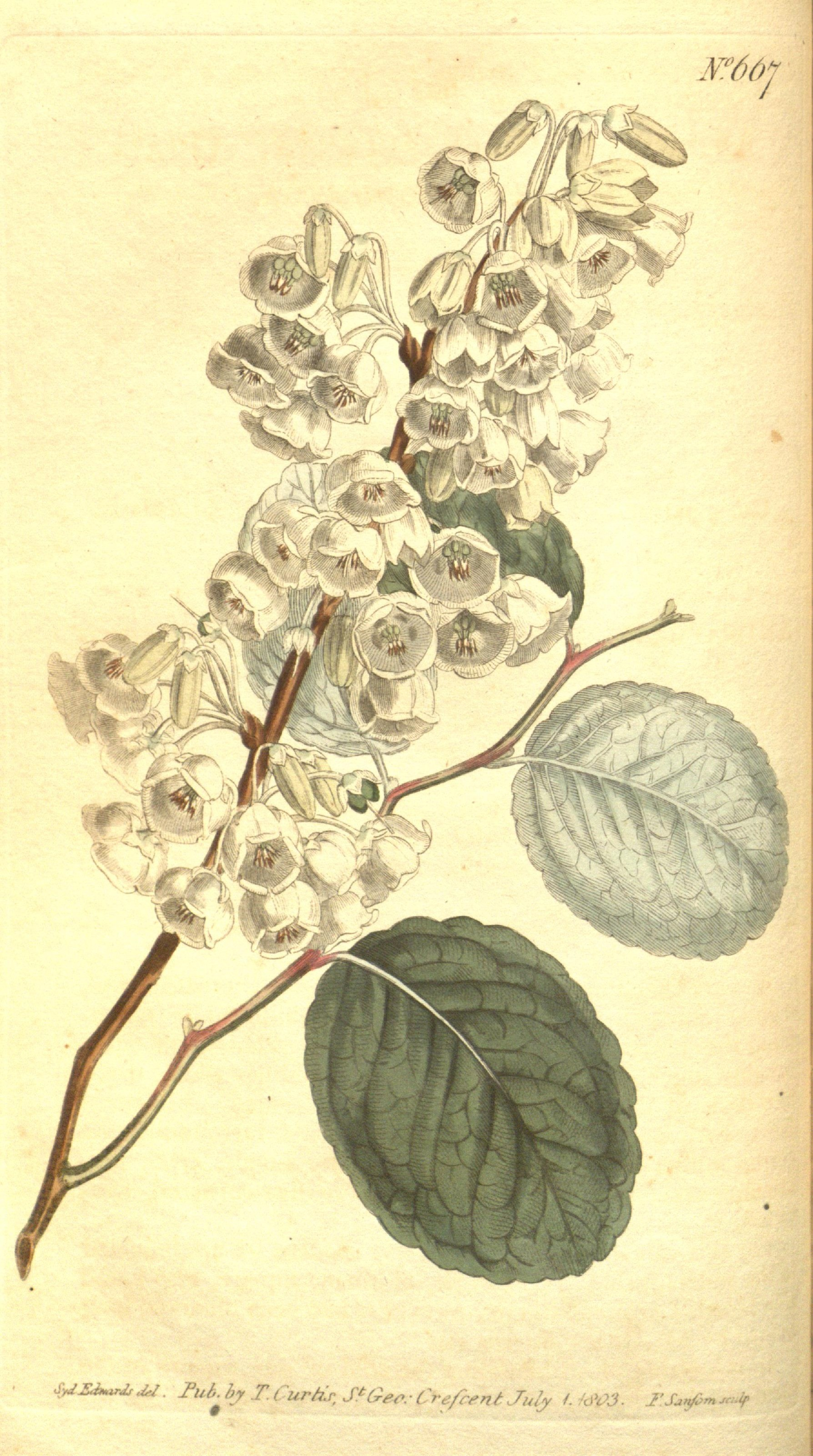 N°66y su 'ZbHxitJJ. FuLhy T.i urti.r S?Ge*Oe/he*U